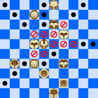 Diagram of moves of afraid elephant in Barca board game.